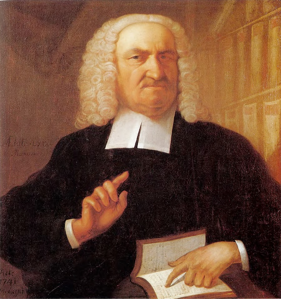 Portrait of Friedrich Grimm (1672-1784), Great-grandfather of Brothers Grimm